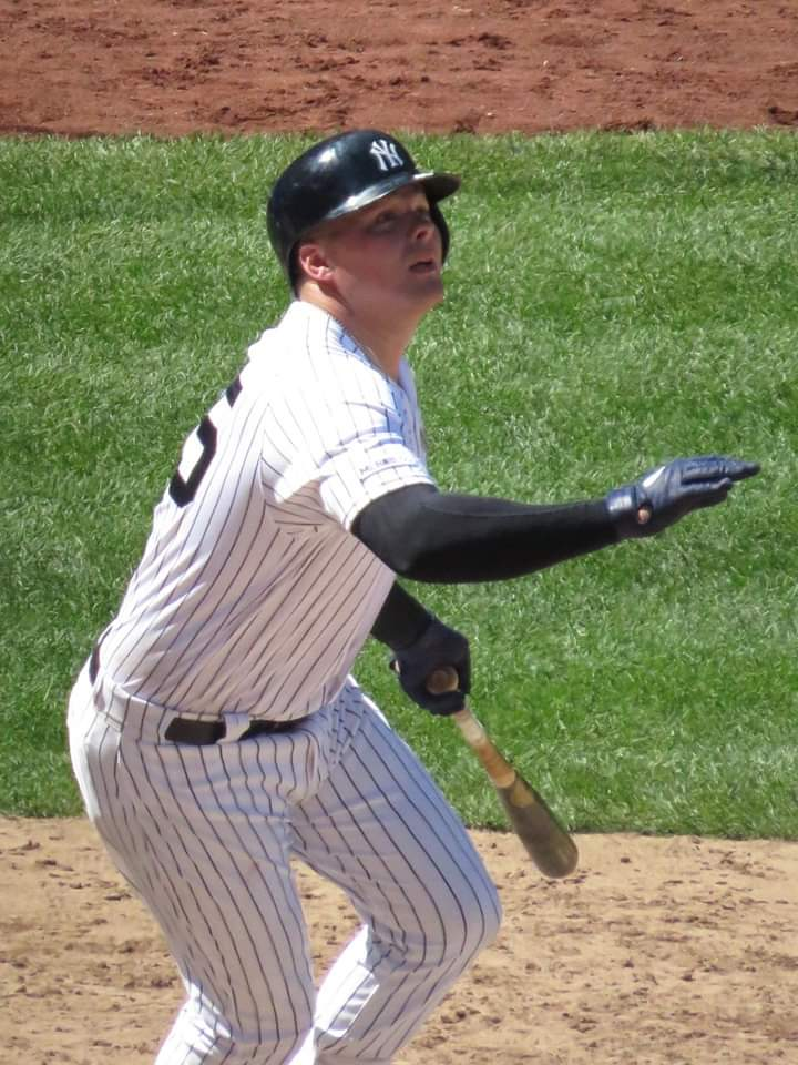 Luke Voit in 2019